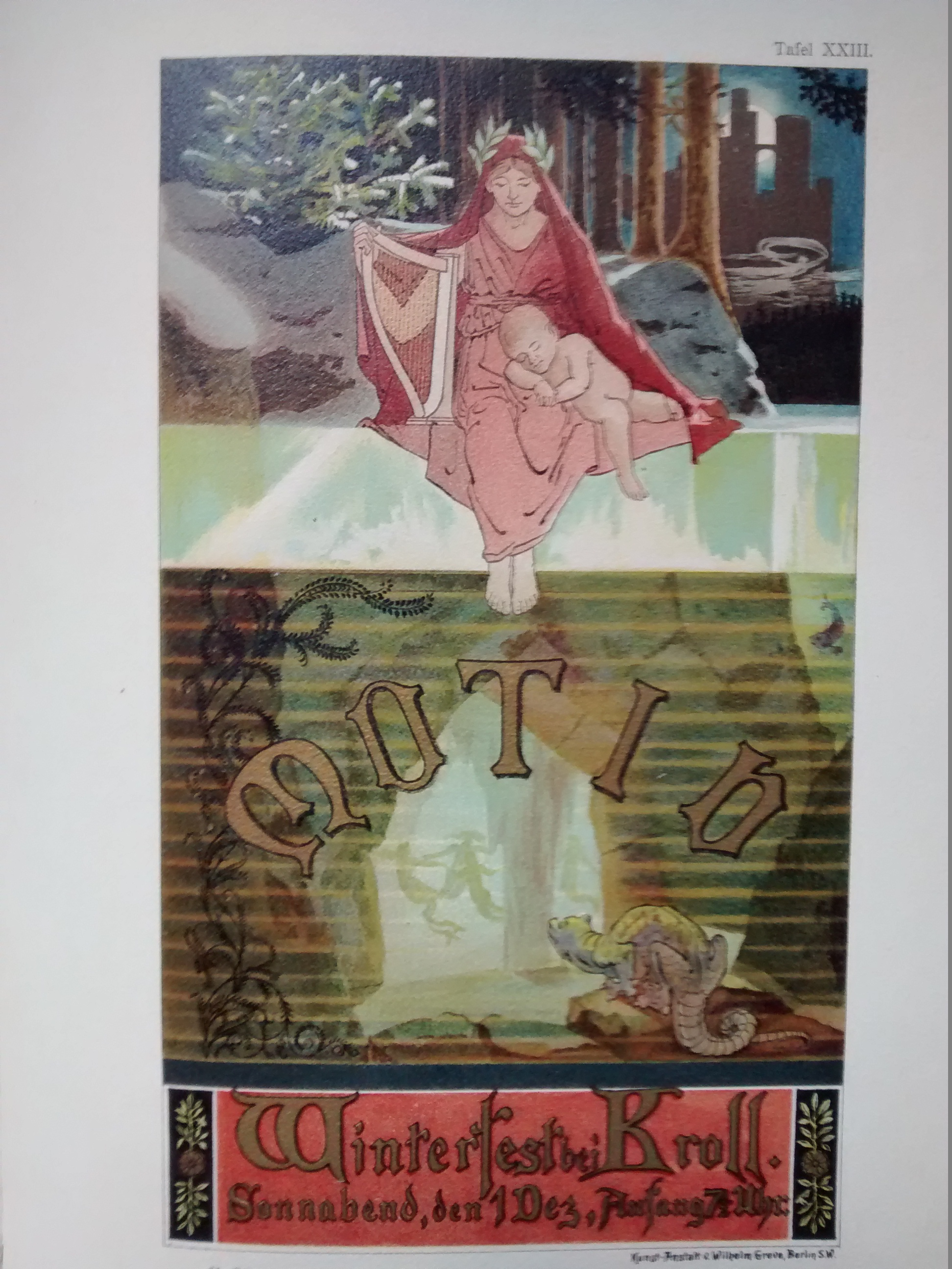 German fraternity Motiv, Invitation to Winter Ball (1896)